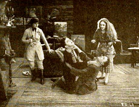 Still from the American film The Sneak (1919) with Irene Rich, two unidentified actors, and Gladys Brockwell, on page 1933 of the June 28, 1919 Moving Picture World.